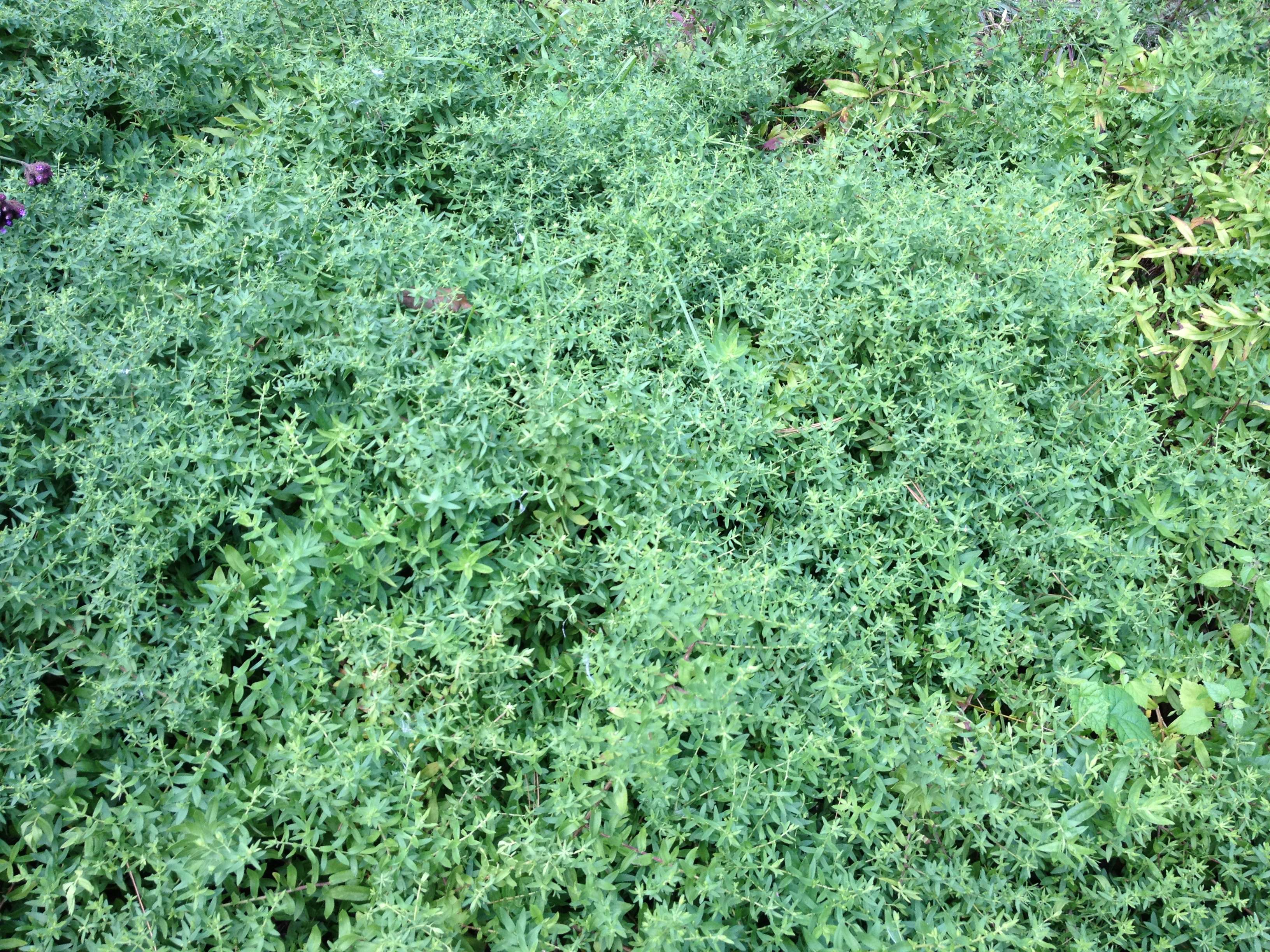 October Skies Aster (Aster oblongifolius)